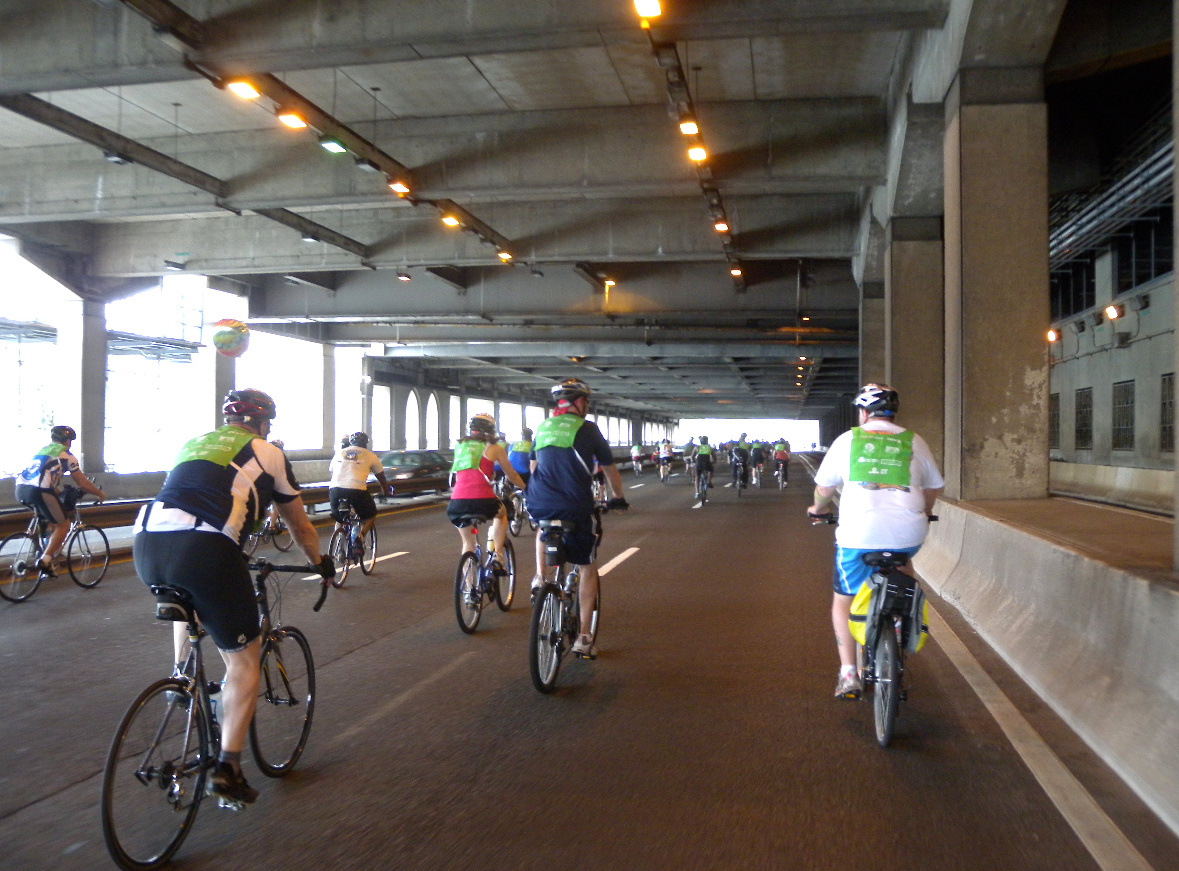 Looking south towards 62nd Street on a mostly sunny late morning.